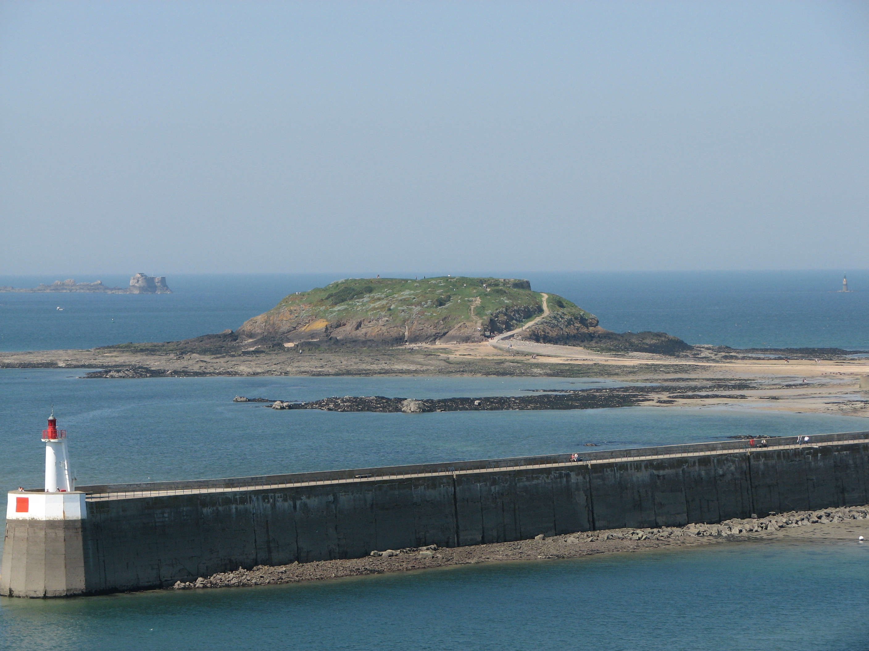 Petit Bé castle, Saint-Malo, see from Cité d'Aleth, in the background, La Conchée